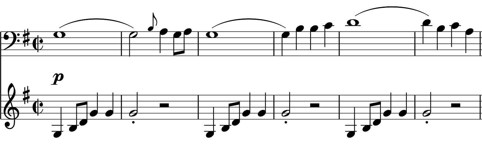 Joseph Haydn, Symphony No. 54, first movement, bar 1-4